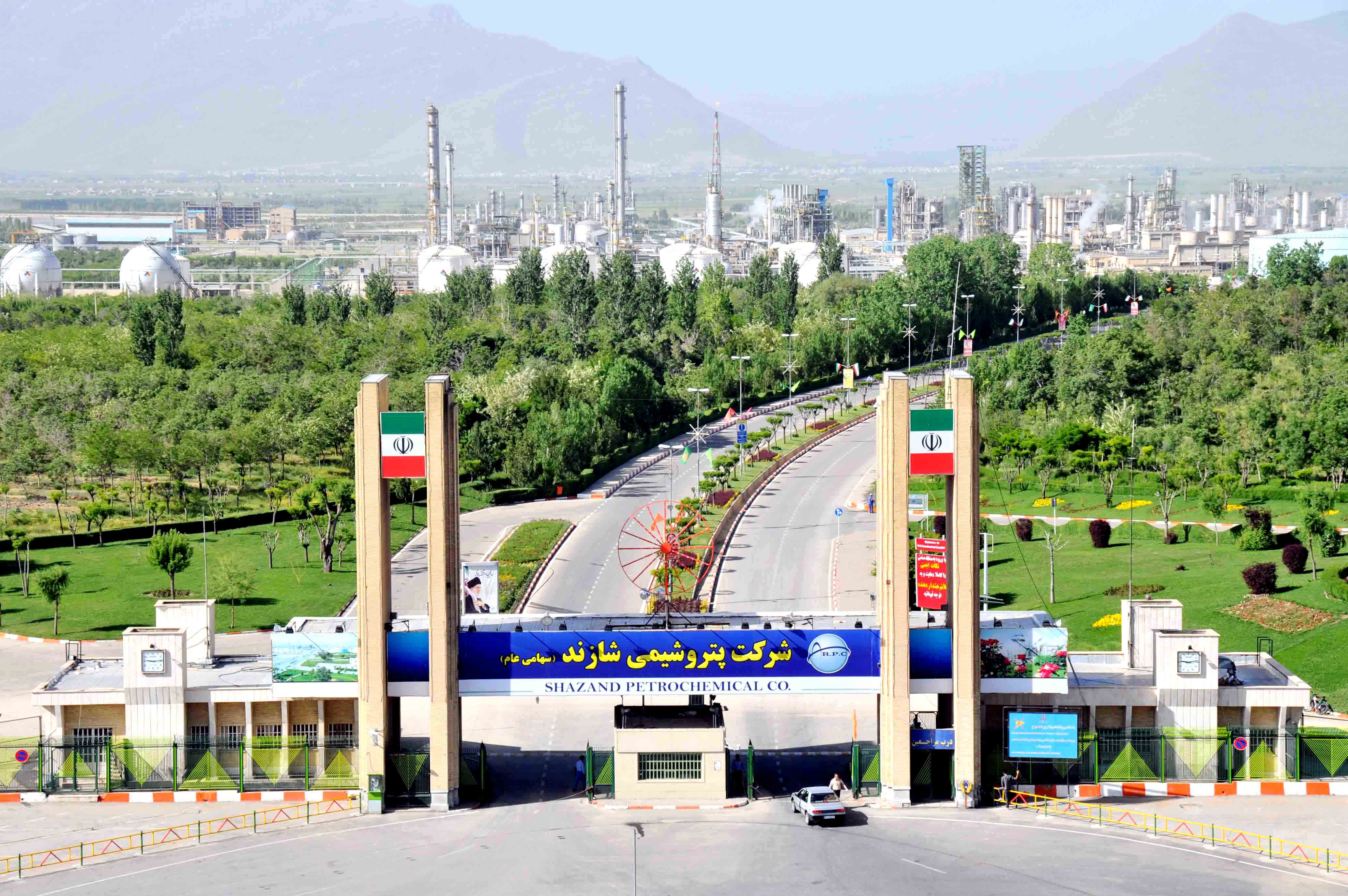 Shazand Petrochemical Arak Petrochemical